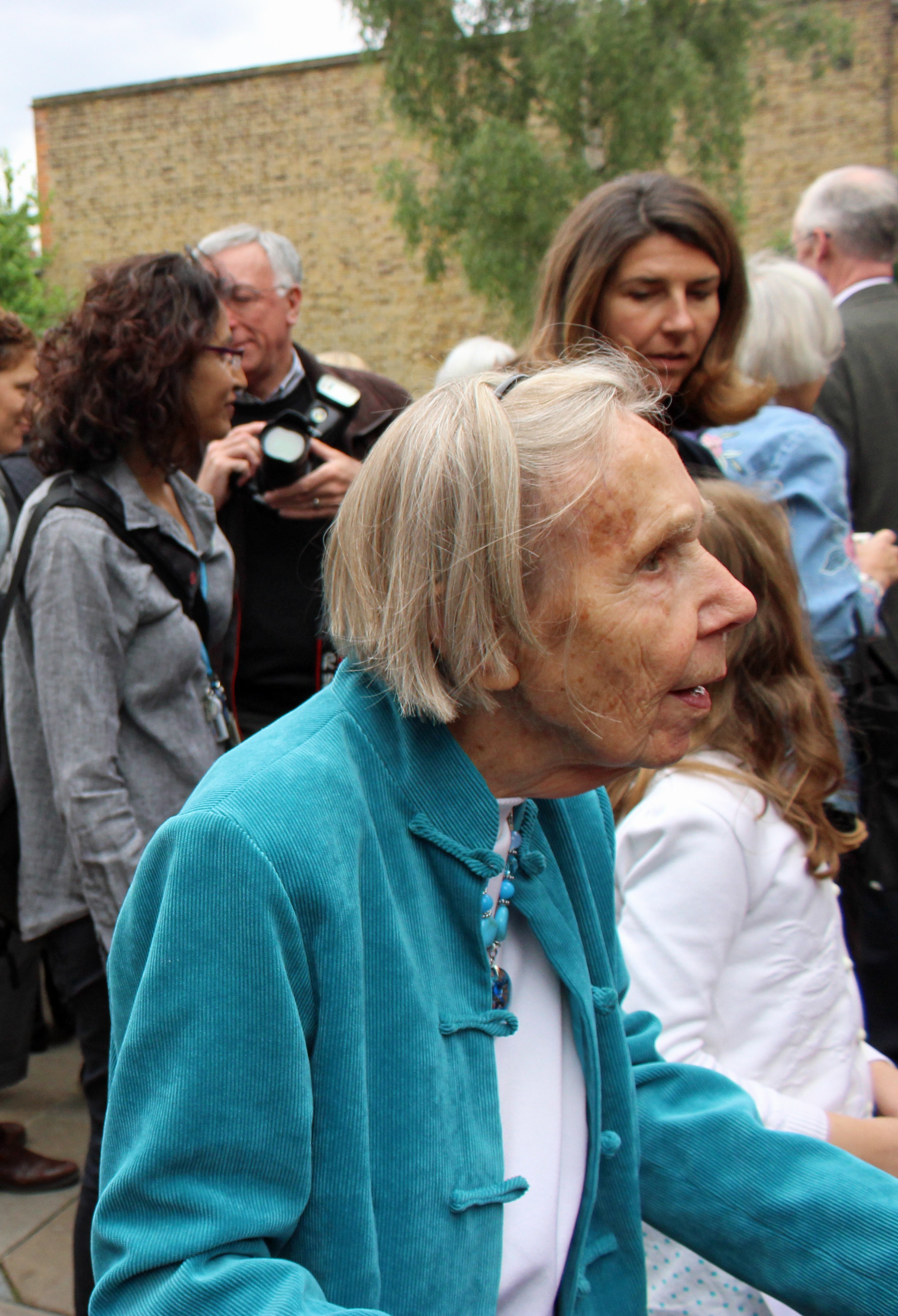 Mary Lee Woods (12 March 1924 – 29 November 2017) was an English mathematician and computer programmer who worked in a team that developed programs in the School of Computer Science Mark 1, Ferranti Mark 1 and Mark 1 Star computers.